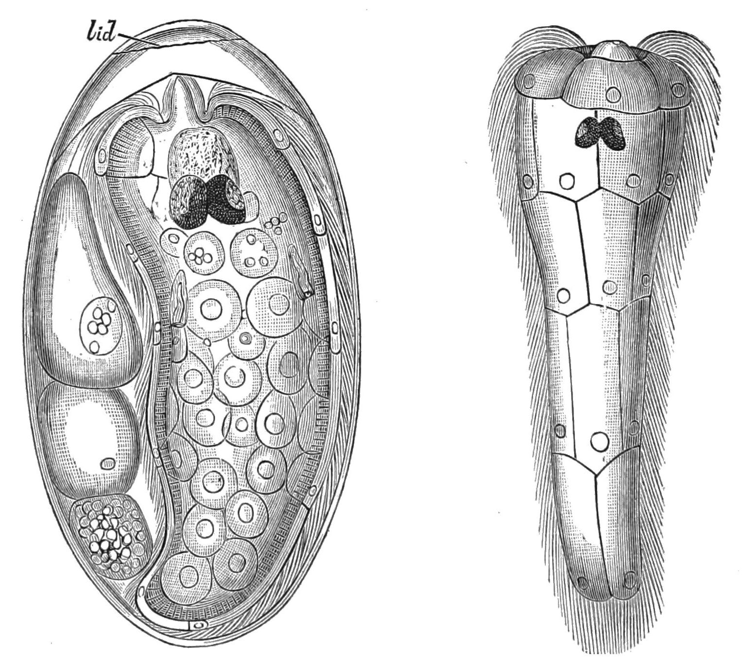 Fully developed fluke egg and the cilia for water propulsion